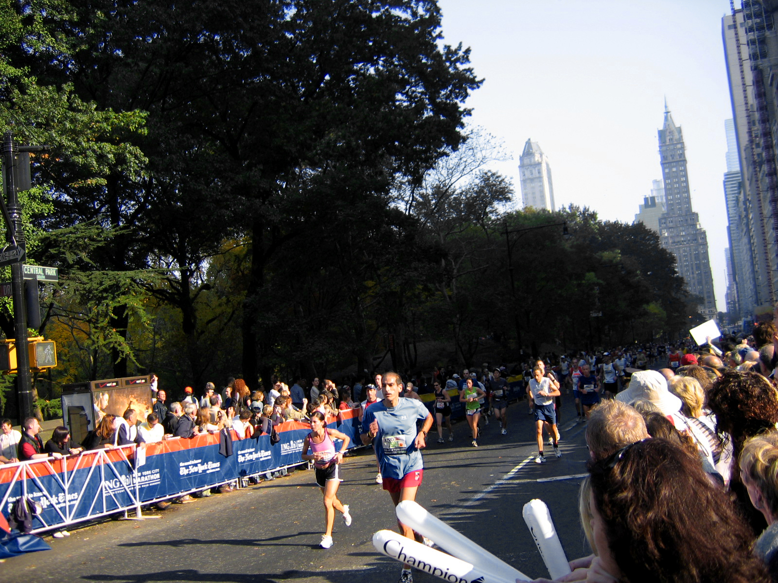 The 2005 New York City Marathon, on Central Park South near the finish line.